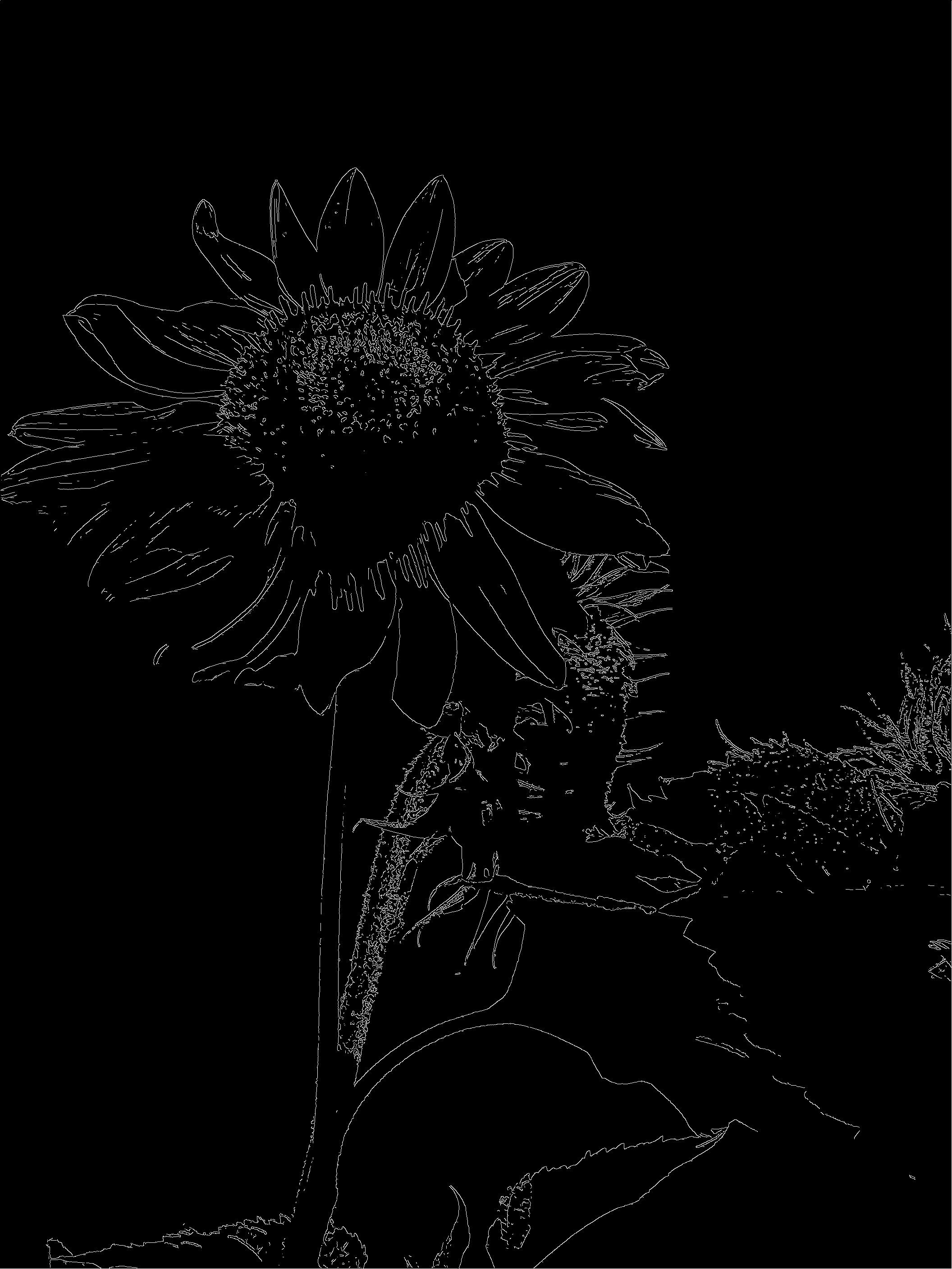 Sunflowers image after applying Deriche edge detector with parameters alpha = 1.5, low_treshold = 20, high_treshold = 40.